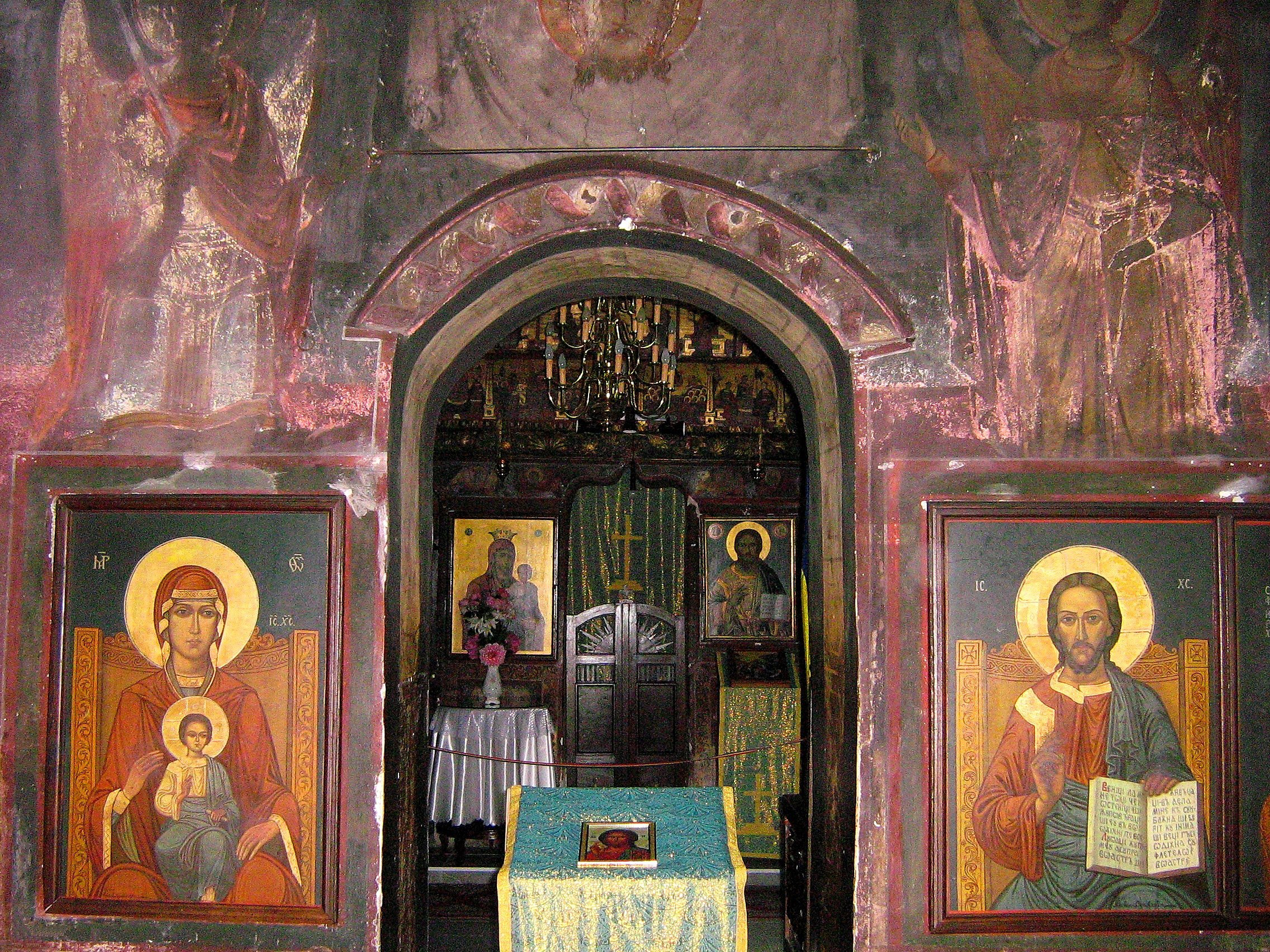 Narthex in Orthodox church. Looking through the doorway into the nave. A small, secluded eighteenth century Orthodox monastery (now a nunnery), it is the place to go if you are looking for an old church where you can be alone with the icons and the cross - a place for a little solitude and meditation. The mural painting in the charming little church is not so well preserved, but its patina can make you feel like you are in a time long, long ago. The nice nun at the door graciously allowed me to take pictures inside the church. I don't know if it's actually fresco or mural painting realised with other techniques.